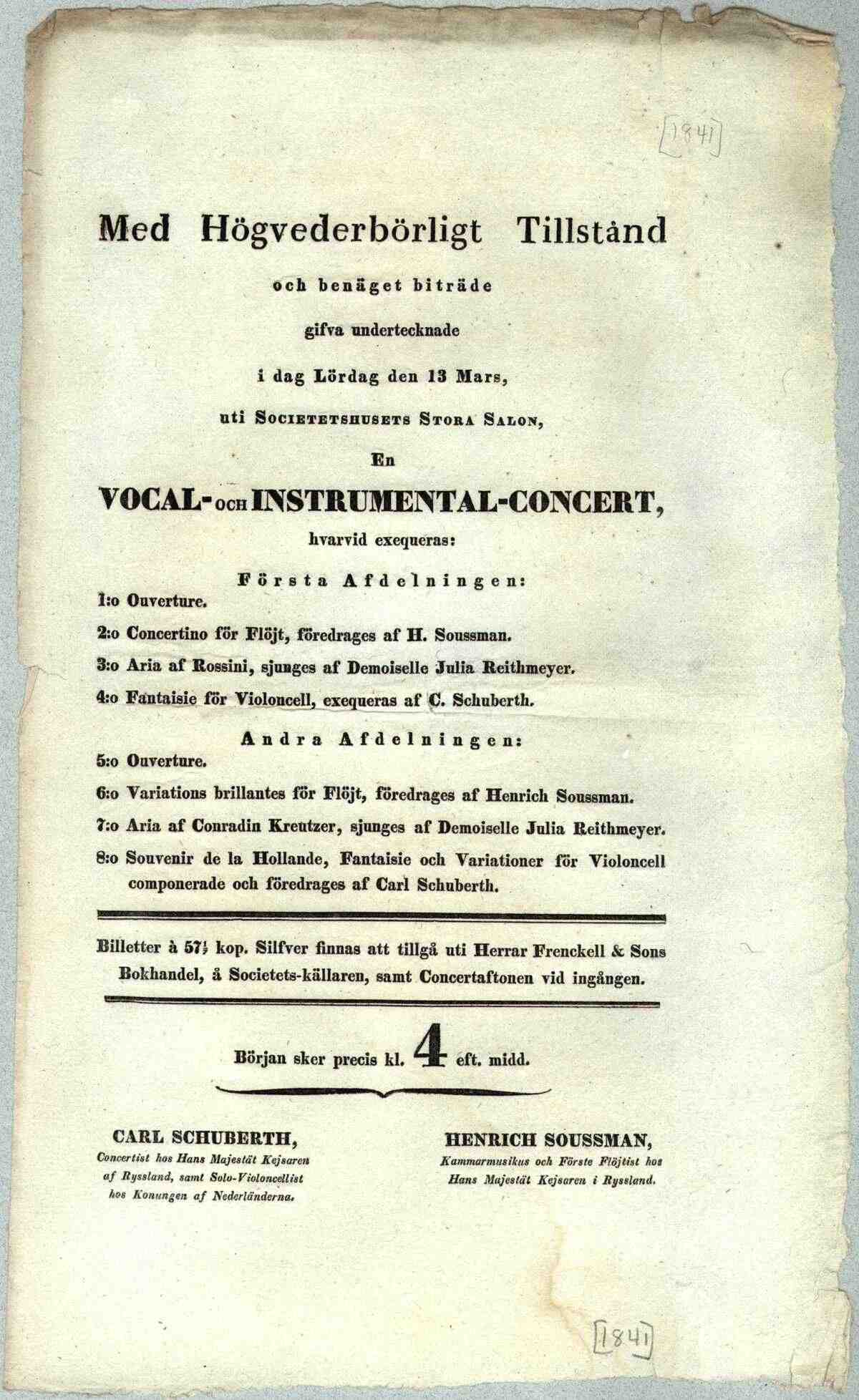 Publicity from a concert, held in Finland on 13 March 1841, of the flutist Heinrich Soussman